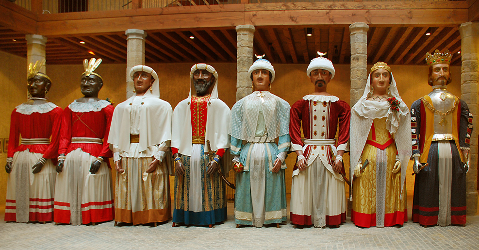 pamplona´s gigants